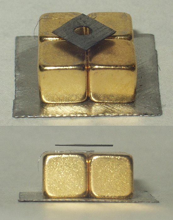 A small (~6mm) piece of pyrolytic graphite levitating over a permanent neodymium magnet array (5mm cubes on a piece of steel). Note that the poles of the magnets are aligned vertically and alternate (two with north facing up, and two with south facing up, diagonally)